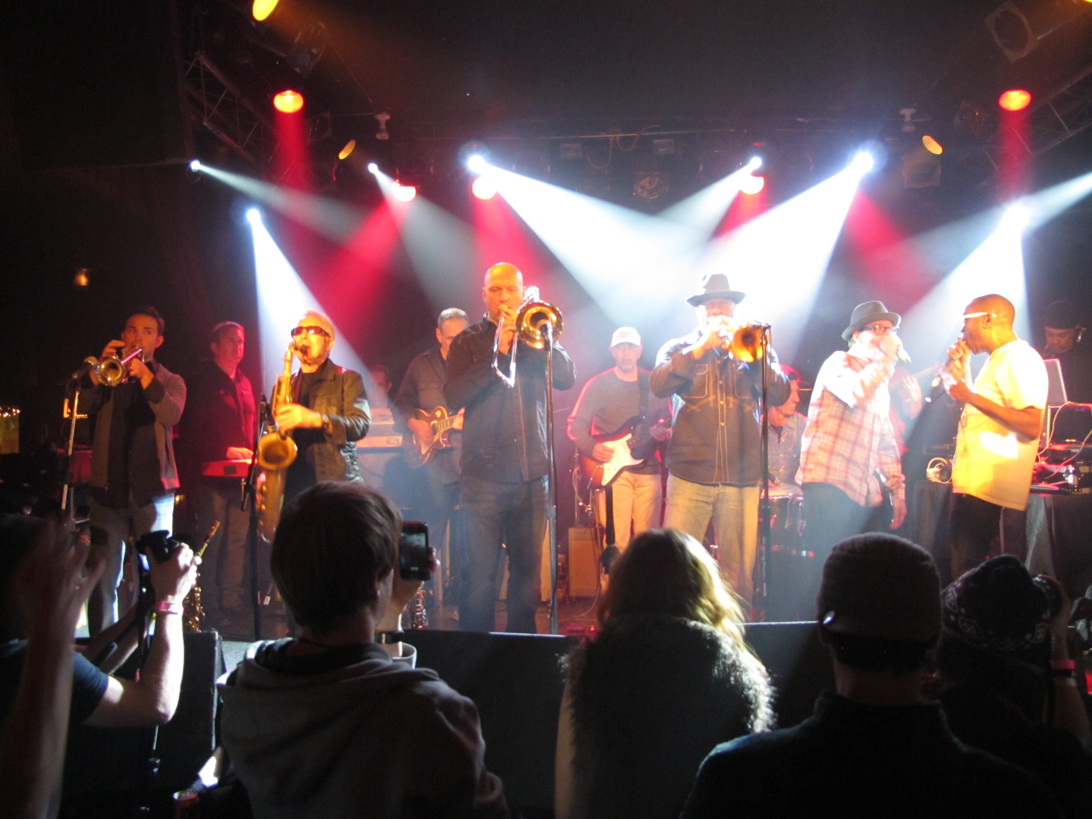 Liquid Soul performing during their 20th Anniversary Show at the Double Door in Chicago, IL on January 20, 2013